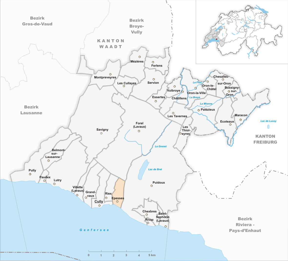 Municipality Epesses